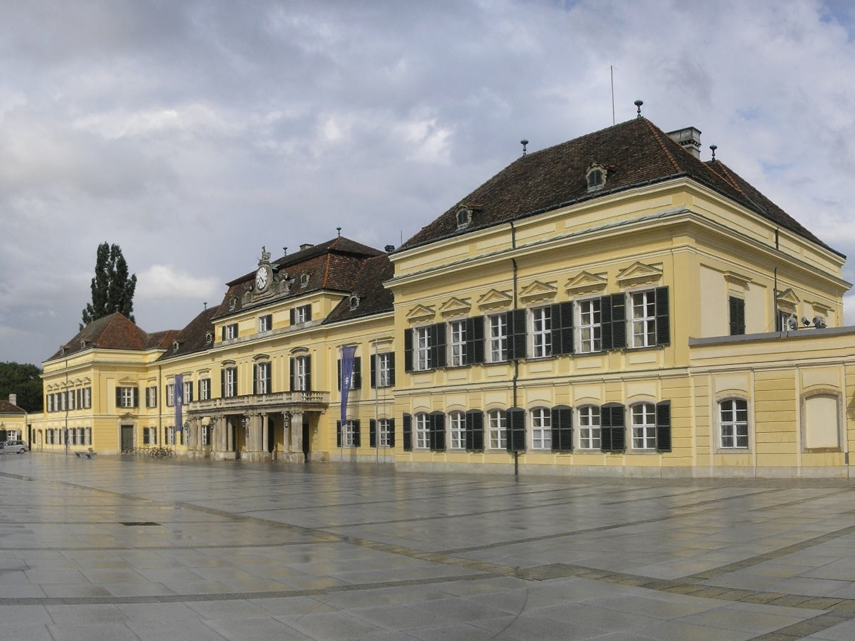 Blauer Hof at Laxenburg in Lower Austria.